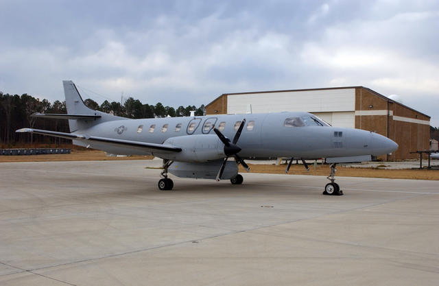 A Florida Air National Guard C-26B Metroliner aircraft sits at the Jacksonville Air National Guard Base, Jacksonville International Airport, Fla., on Feb. 14, 2005. Location: JACKSONVILLE IAP, FLORIDA (FL) UNITED STATES OF AMERICA (USA)